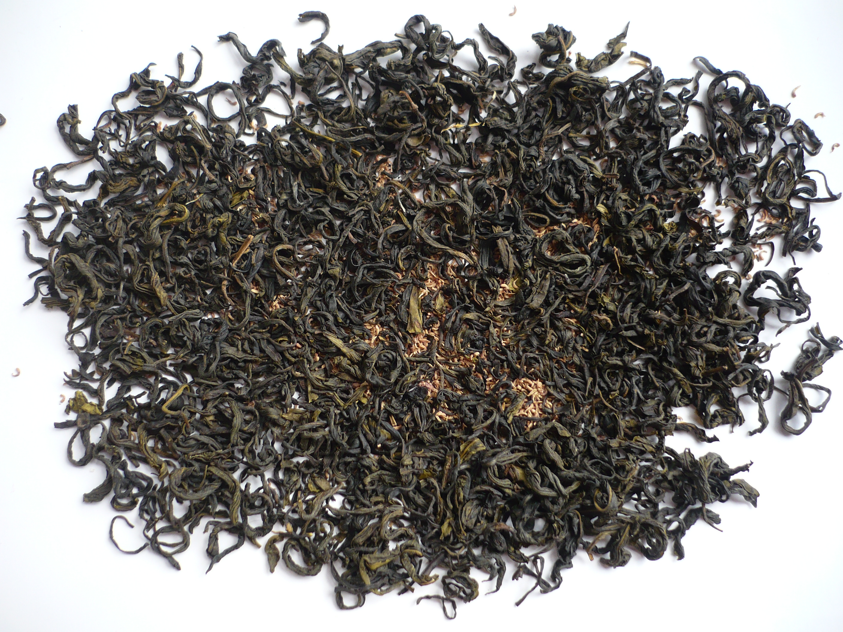 Vietnamese lotus tea. The photo was taken in Ha Noi, Viet Nam.